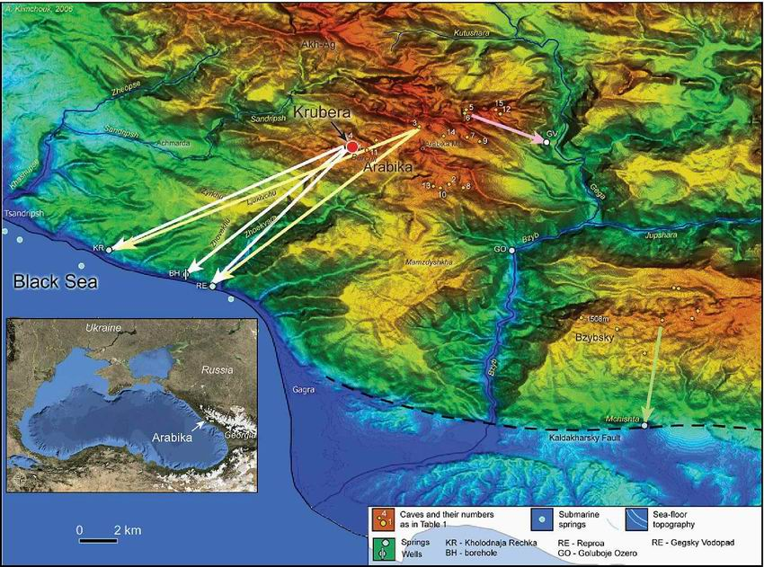 Shadow map of the Arabika Massif